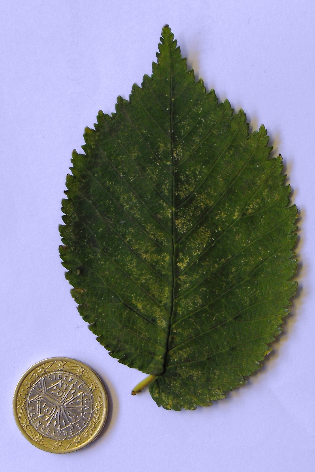 Photo of leaf of Ulmus minor growing at Horsea Island, UK